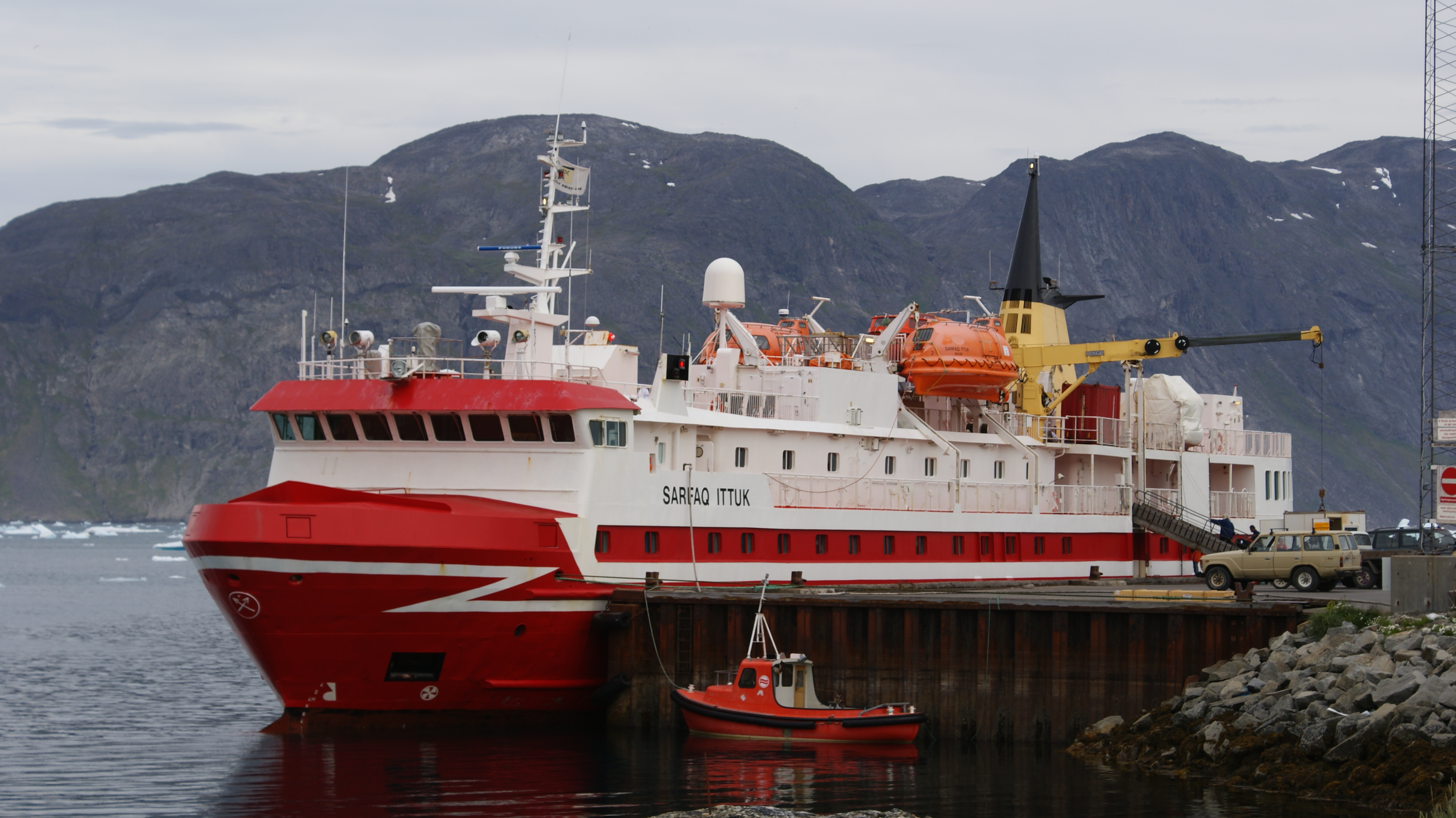 Sarfaq Ittuk of Arctic Umiaq moored at Narsaq, Greenland.